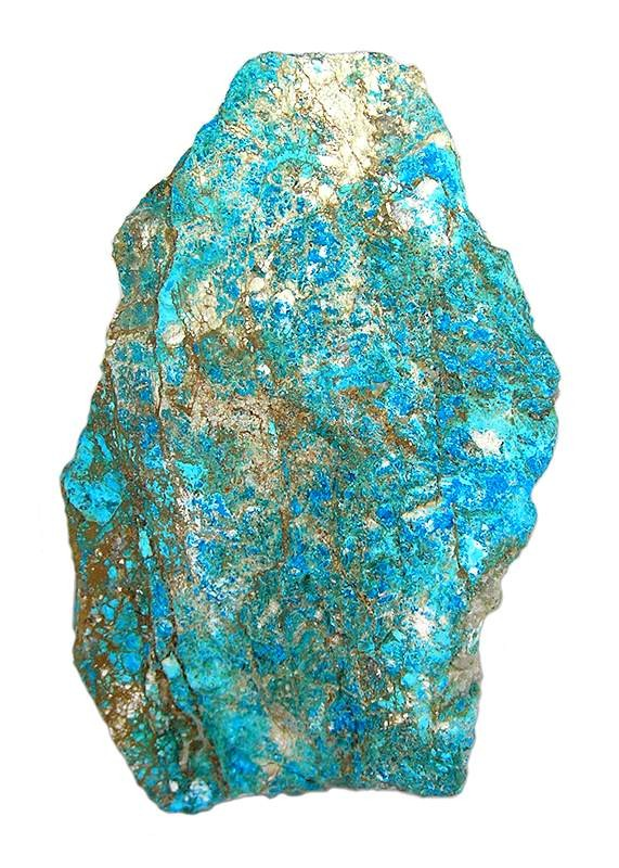 Lemanskiite Locality: Abundancia Mine, Guanaco (Huanaco), Santa Catalina, Antofagasta Province, Antofagasta Region, Chile (Locality at ) Size: 6.3 x 3.3 x 3.1 cm. Blue lemanskiite on matrix. This large specimen is one of the richer examples of this new species, named for Chet Lemanski in 1998. It was selected for Mark and passed on to him by Bill Pinch. Ex. Dr. Mark Feinglos and Chet Lemanski Collections.